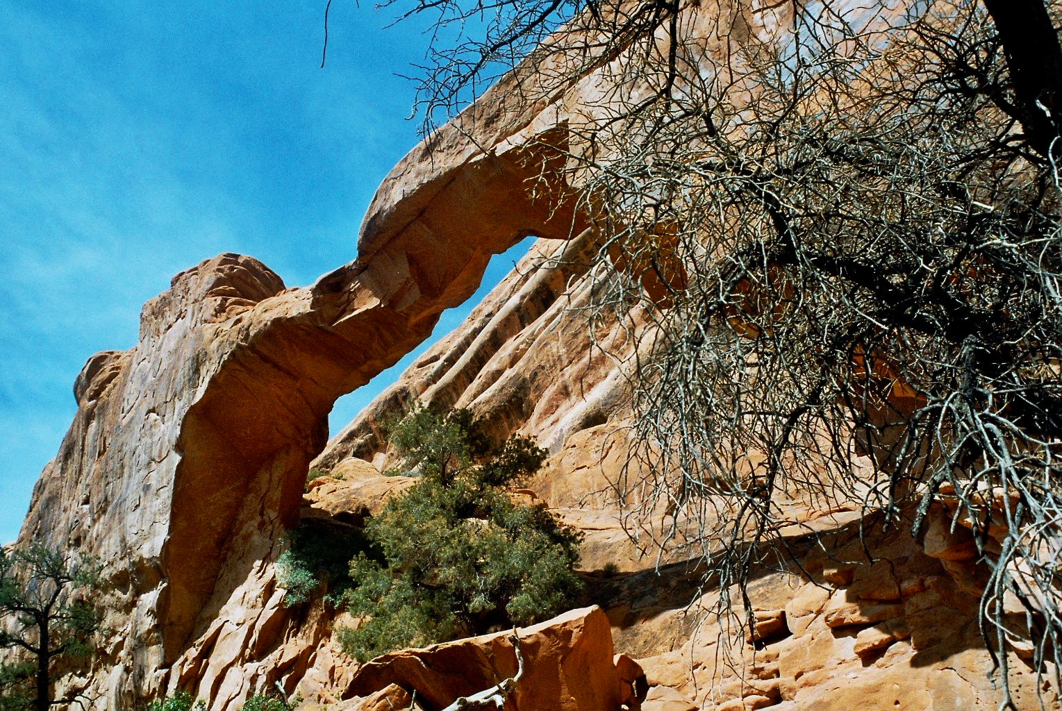 Arch, Arches National Park, Thompson Springs - near by Landscape Arch and Navajo Arch